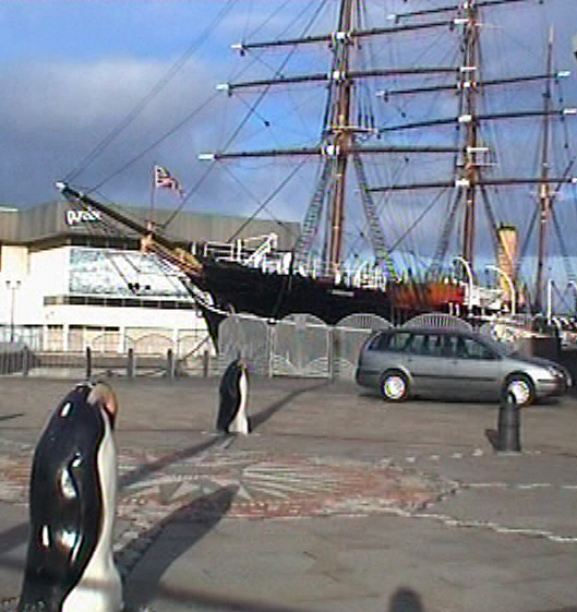 Dundee, RRS Discovery